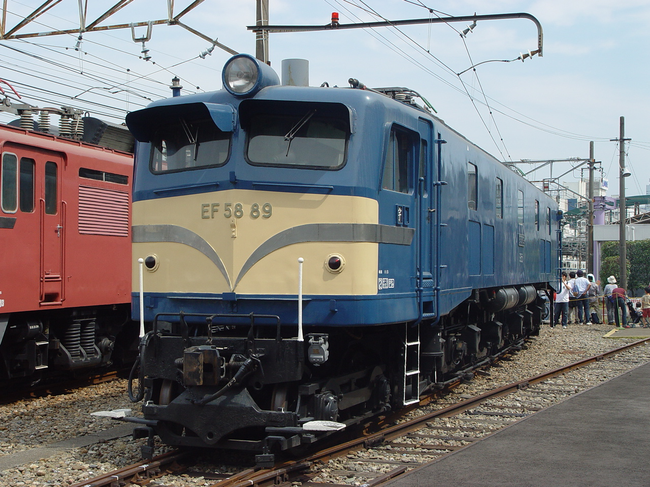 Preserved EF58 89 at Omiya Works Open Day